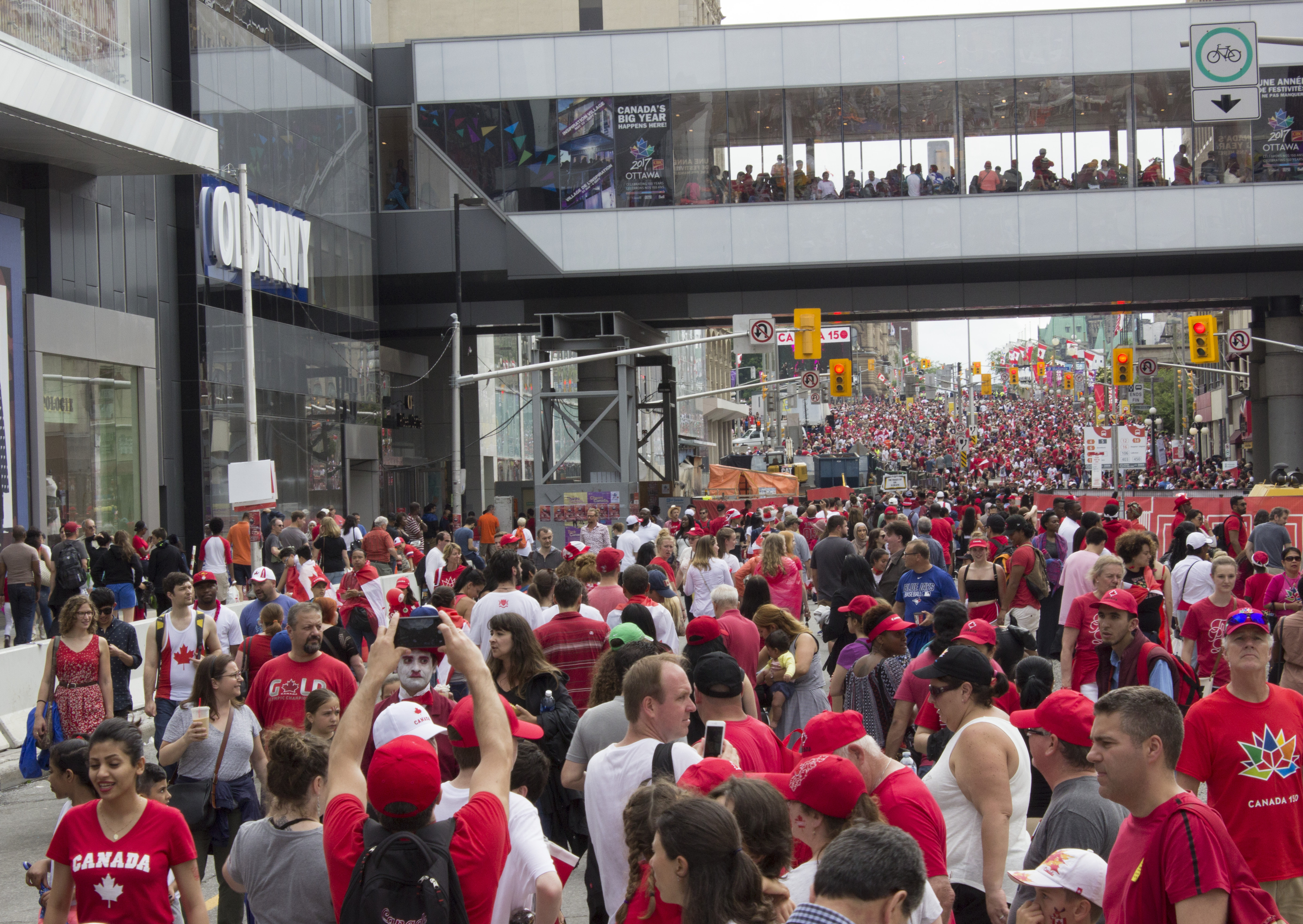 Picture is of the crowd present at the Canada 150 Celebrations on Rideau Street (Ottawa, Canada). In particular, it is outside of Rideau Centre. Picture was taken from an elevated surface.